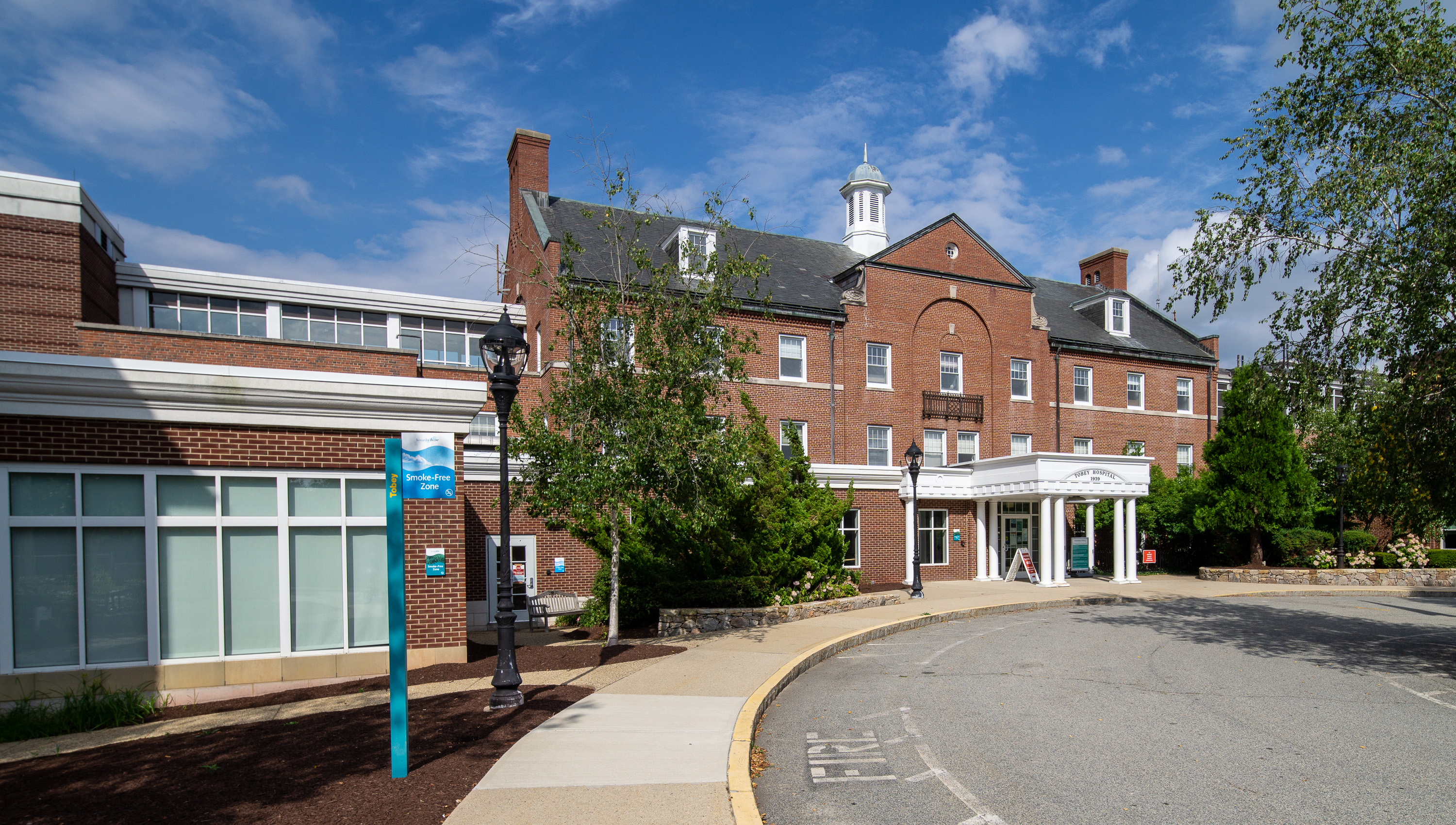 Tobey Hospital, Wareham, Massachusetts. Founded 1938.